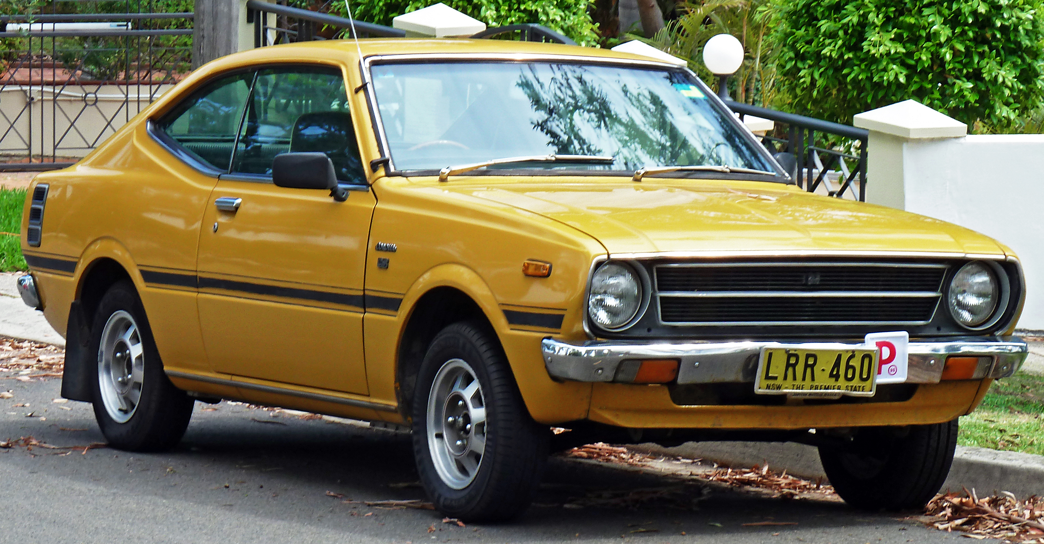 1977 Toyota Corolla (KE35R) CS coupe. Photographed in Kangaroo Point, New South Wales, Australia.